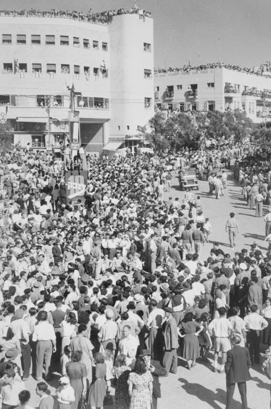 Jakob Rosner